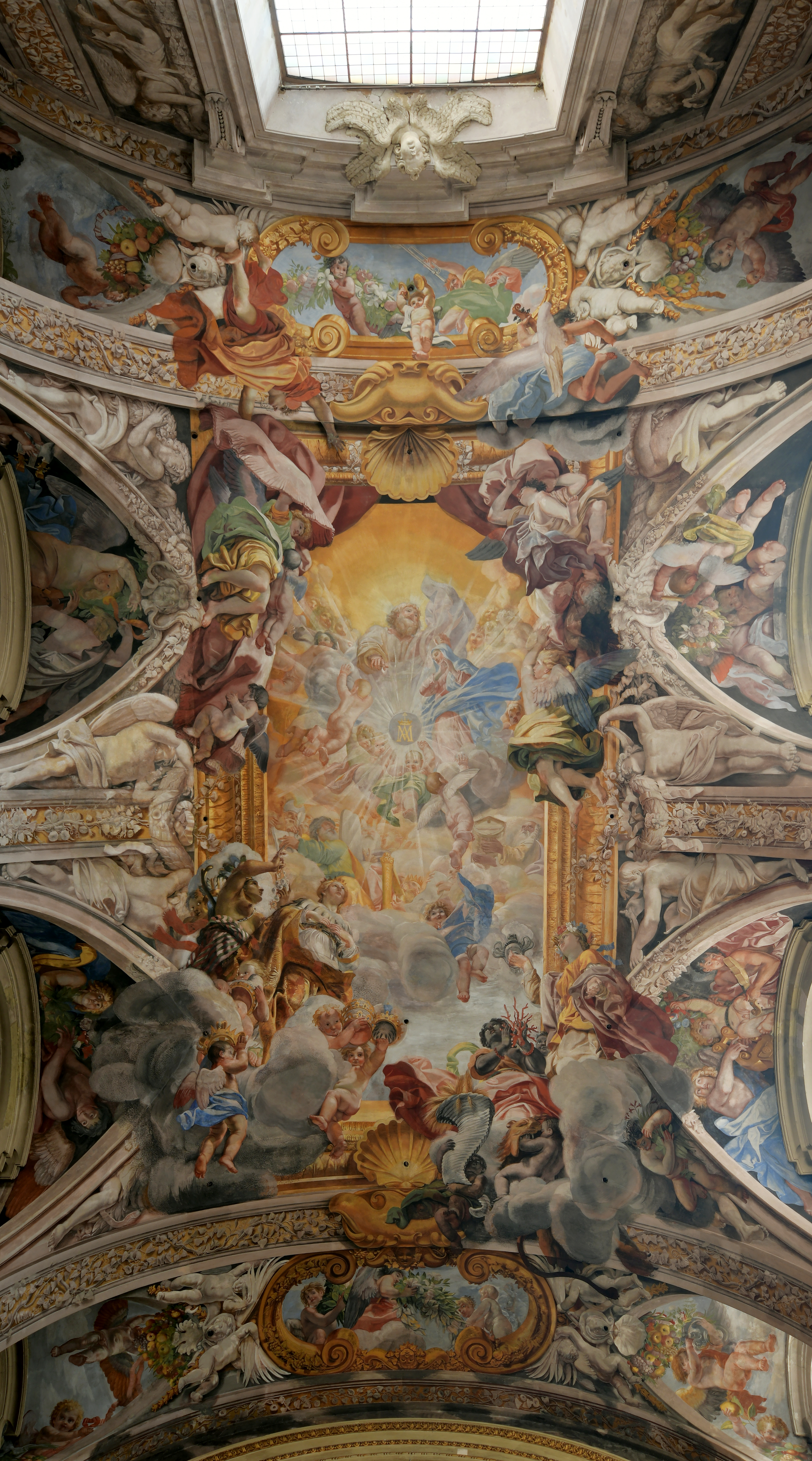 San Pantaleo (Rome) - Ceiling